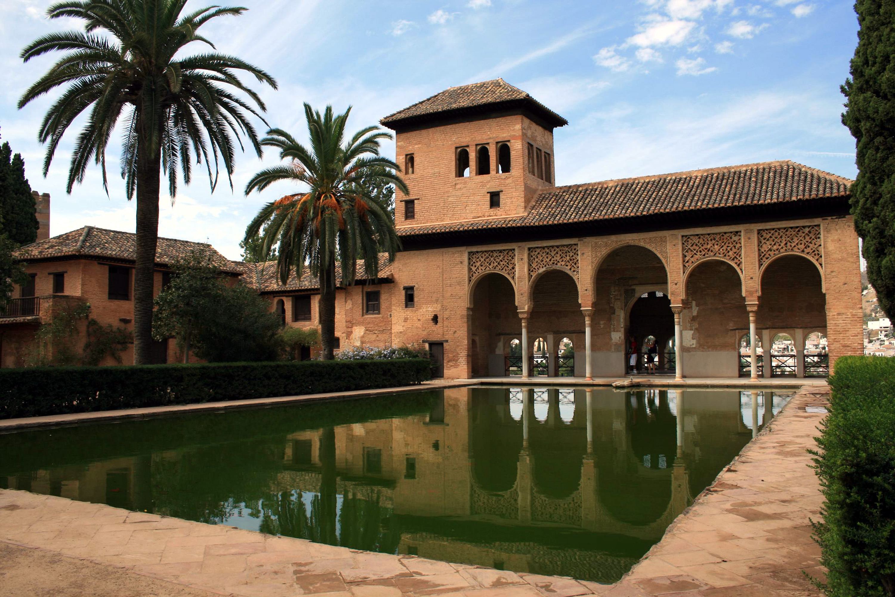 The name Alhambra comes from an Arabic root which means red or crimson castle, perhaps due to the hue of the towers and walls that surround the entire hill of La Sabica which by starlight is silver but by sunlight is transformed into gold. But there is another more poetic version, evoked by the Moslem analysts who speak of the construction of the Alhambra fortress by the light of torches, the reflections of which gave the walls their particular coloration. Created originally for military purposes, the Alhambra was an alcazaba (fortress), an alcázar (palace) and a small medina (city), all in one.